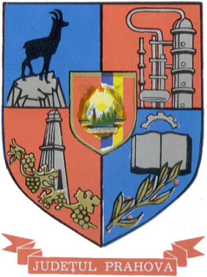 Communist coat of arms of Prahova County, Socialist Republic of Romania.